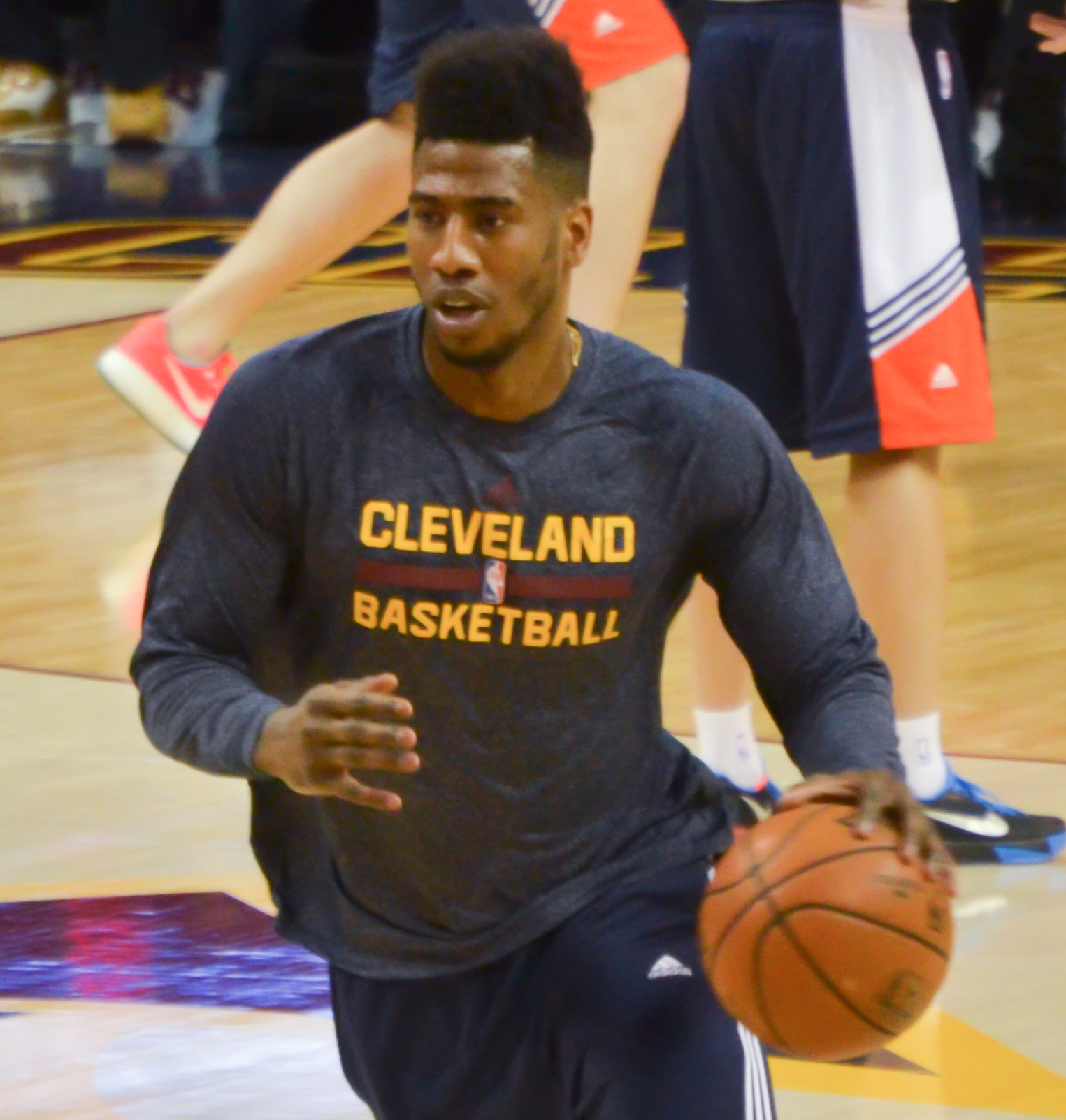 Iman Shumpert warming-up for Cavs in 2015